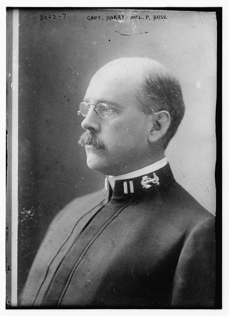 Capt. Harry McL.P. Huse (LOC) Bain News Service,, publisher. Capt. Harry McL. P. Huse [between ca. 1910 and ca. 1915] 1 negative : glass ; 5 x 7 in. or smaller. Notes: Title from unverified data provided by the Bain News Service on the negatives or caption cards. Forms part of: George Grantham Bain Collection (Library of Congress). Format: Glass negatives. Repository: Library of Congress, Prints and Photographs Division, Washington, D.C. 20540 USA, General information about the Bain Collection is available at Persistent URL: Call Number: LC-B2- 3042-7